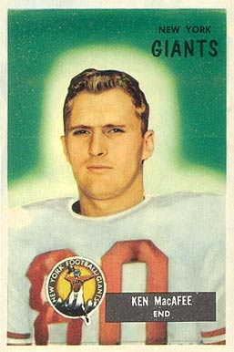 American football player Ken MacAfee (wide receiver) on a 1955 Bowman card.